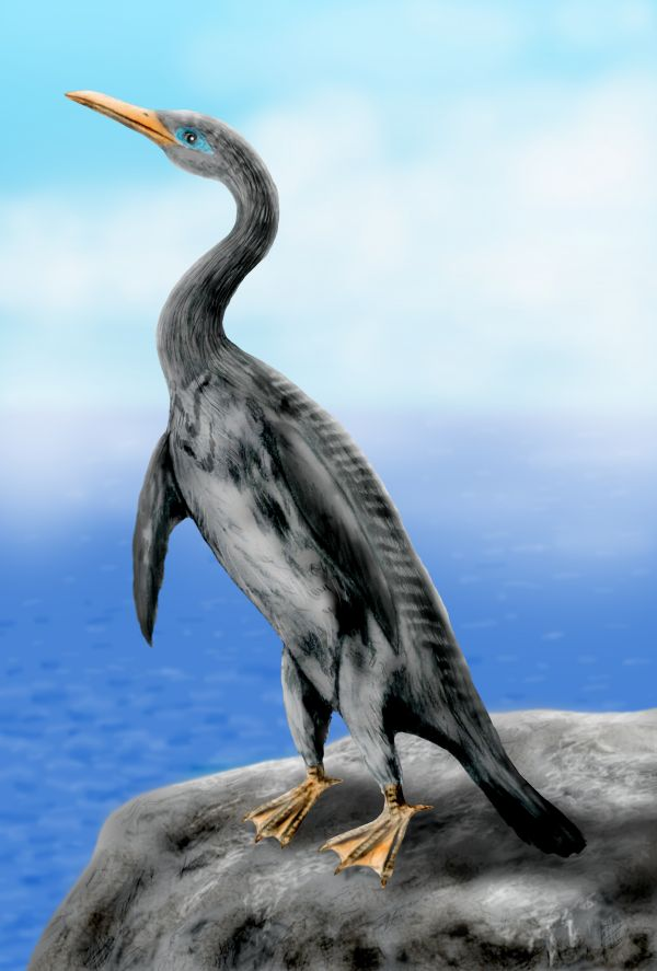 Copepteryx hexeris, a plotopterid bird from the Late Oligocene of Japan. Digital.